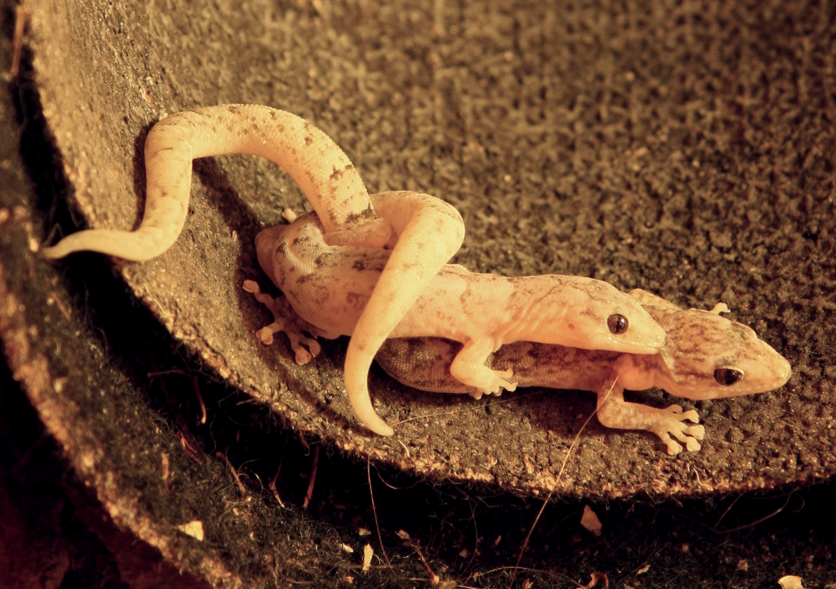 One male and one female Christinus marmoratus (Marbled Gecko) during coitus. The Marbled Gecko is a common species of Gecko often found in urban areas of southern Australia.